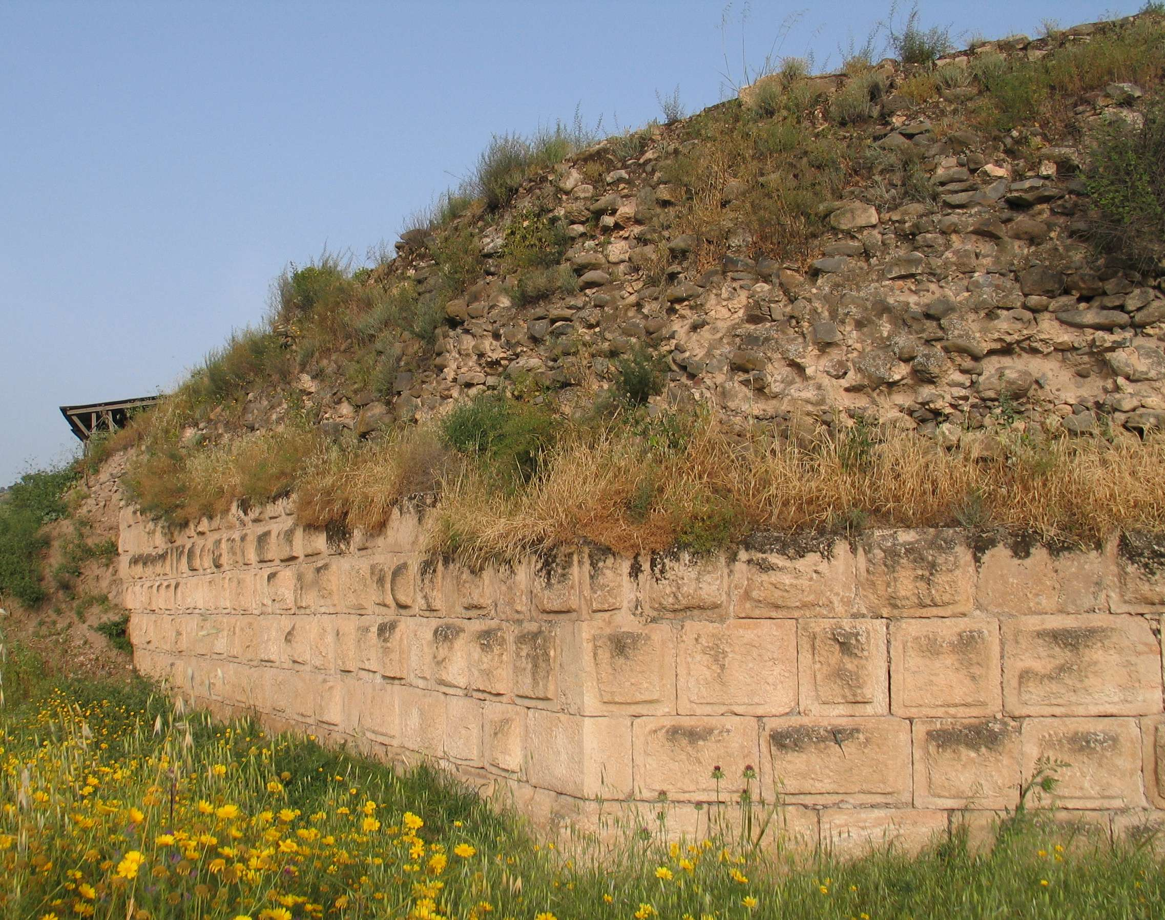 Ateret fortress, Israel.